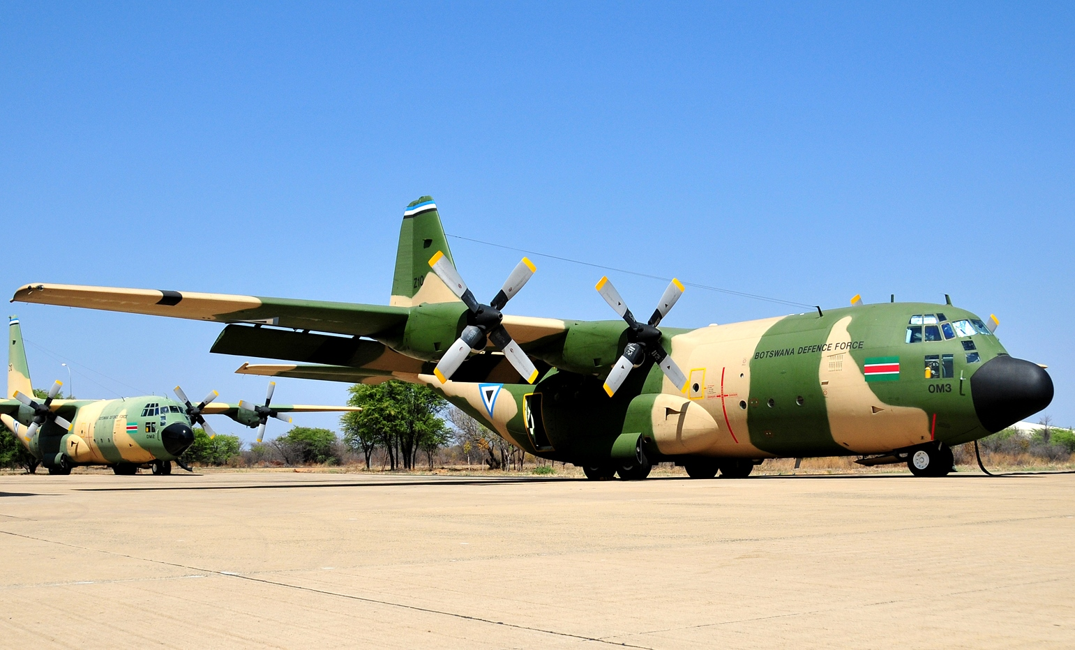 Two Botswana Defense Force C-130s in Botswana.